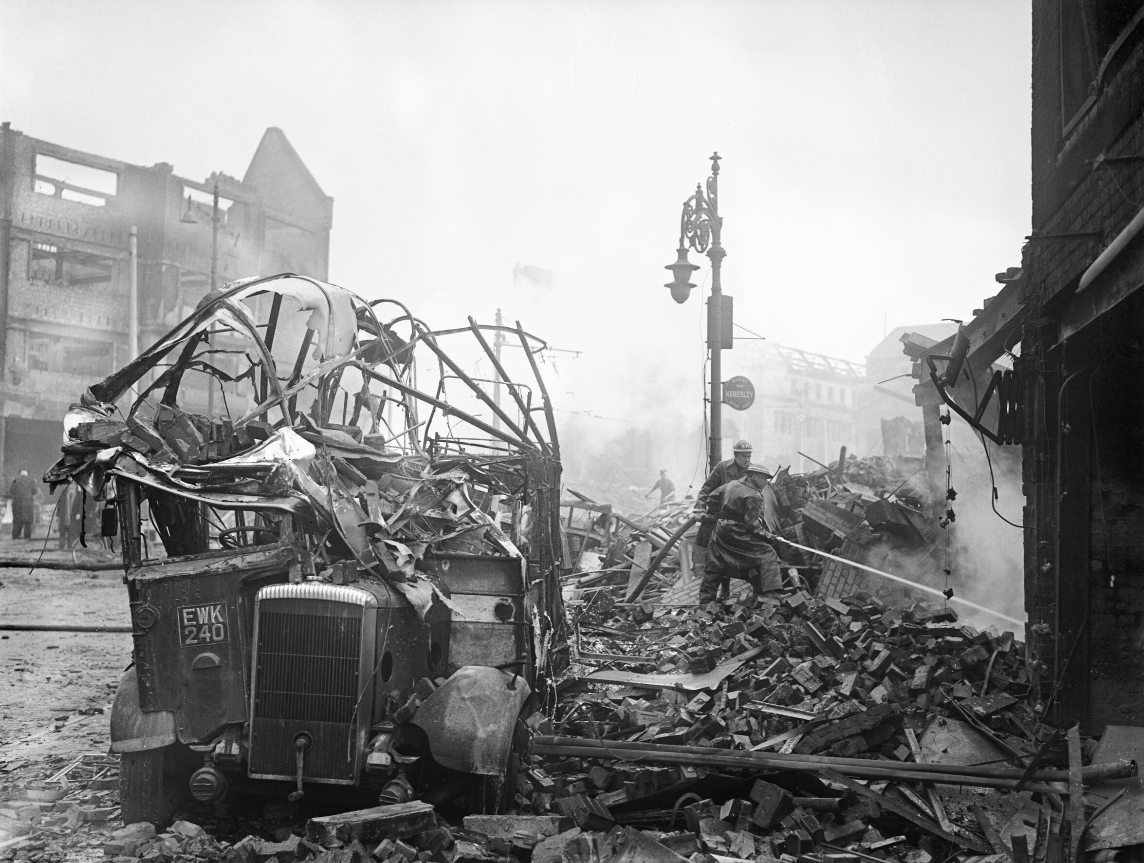 A wrecked bus stands among a scene of devastation in the centre of Coventry after the major Luftwaffe air raid on the night of 14/15 November 1940. A wrecked bus stands among a scene of devastation in the centre of Coventry after the major Luftwaffe air raid on the night of 14/15 November 1940.